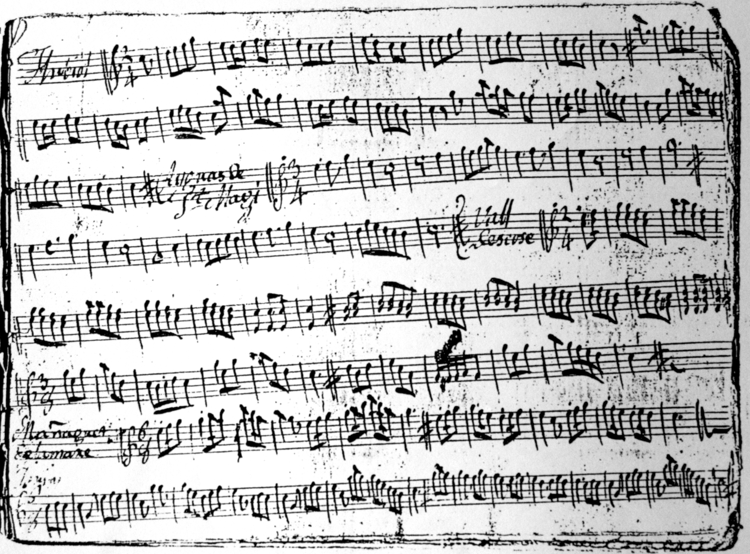 Ball de gitanes, ball de bastons i rigodon, ca. 1820